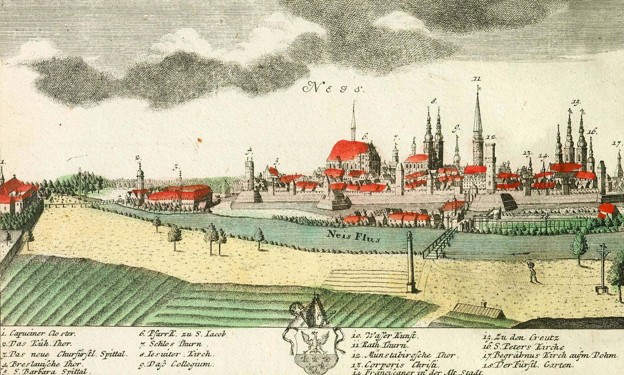 Nysa is a town in southwestern Poland on the Nysa Kłodzka river, situated in the Opole Voivodeship.